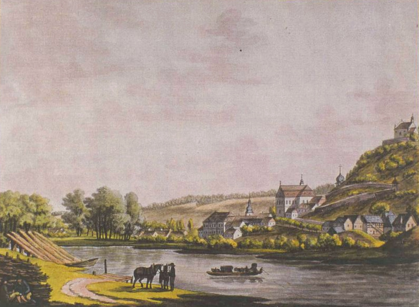 View of Liběchov by Antonín Pucherna (1802), engraved by J. Ernst (1810). Original in the National Gallery in Prague.